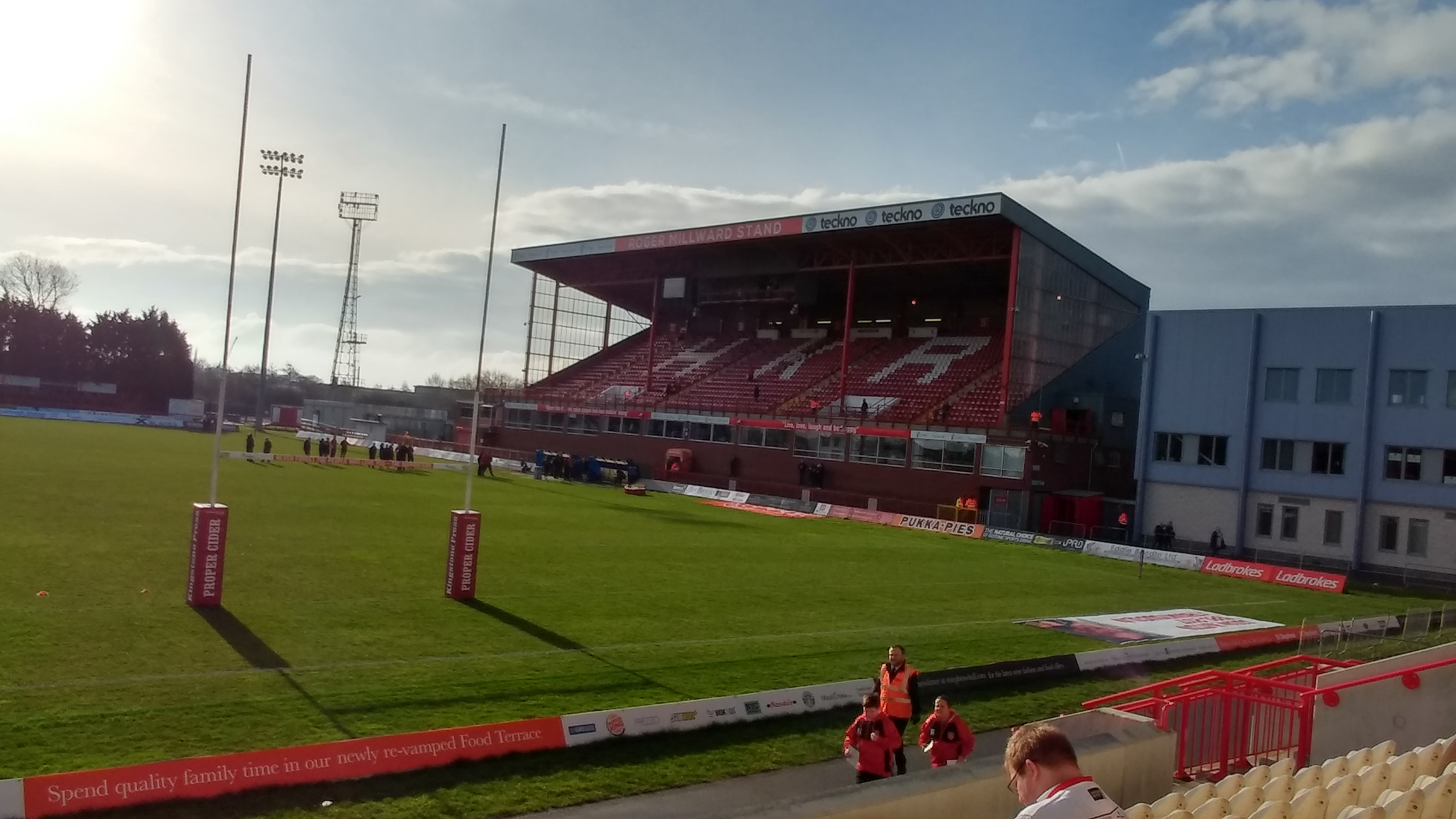 The Roger Millward West Stand at KCOM Craven Park.